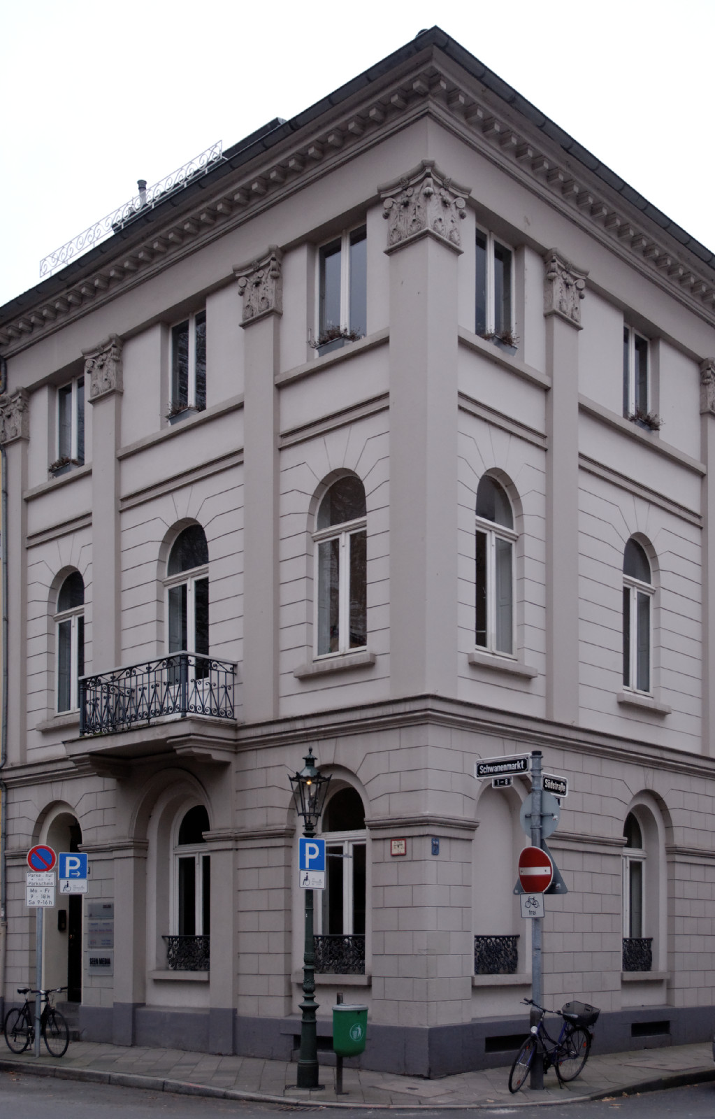 House Schwanenmarkt 8 in Düsseldorf-Carlstadt, Germany